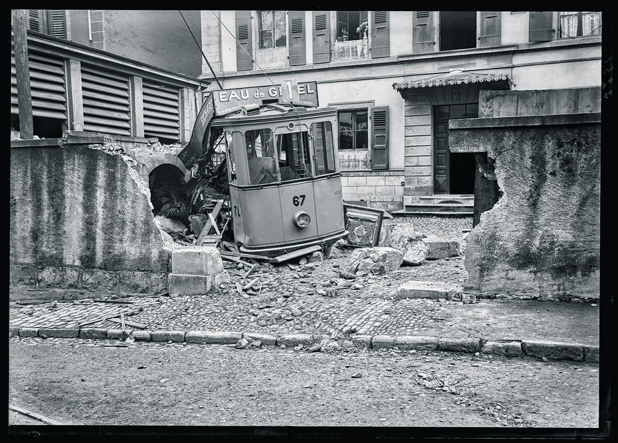 Photo taken by criminologist Rodolphe Archibald Reiss. It shows an accident scene of streetcar Lausanne-Moudon line, that occurred October 28 1913. Following a brakes failure, the streetcar rushed into a house. Two victims died in the accident.